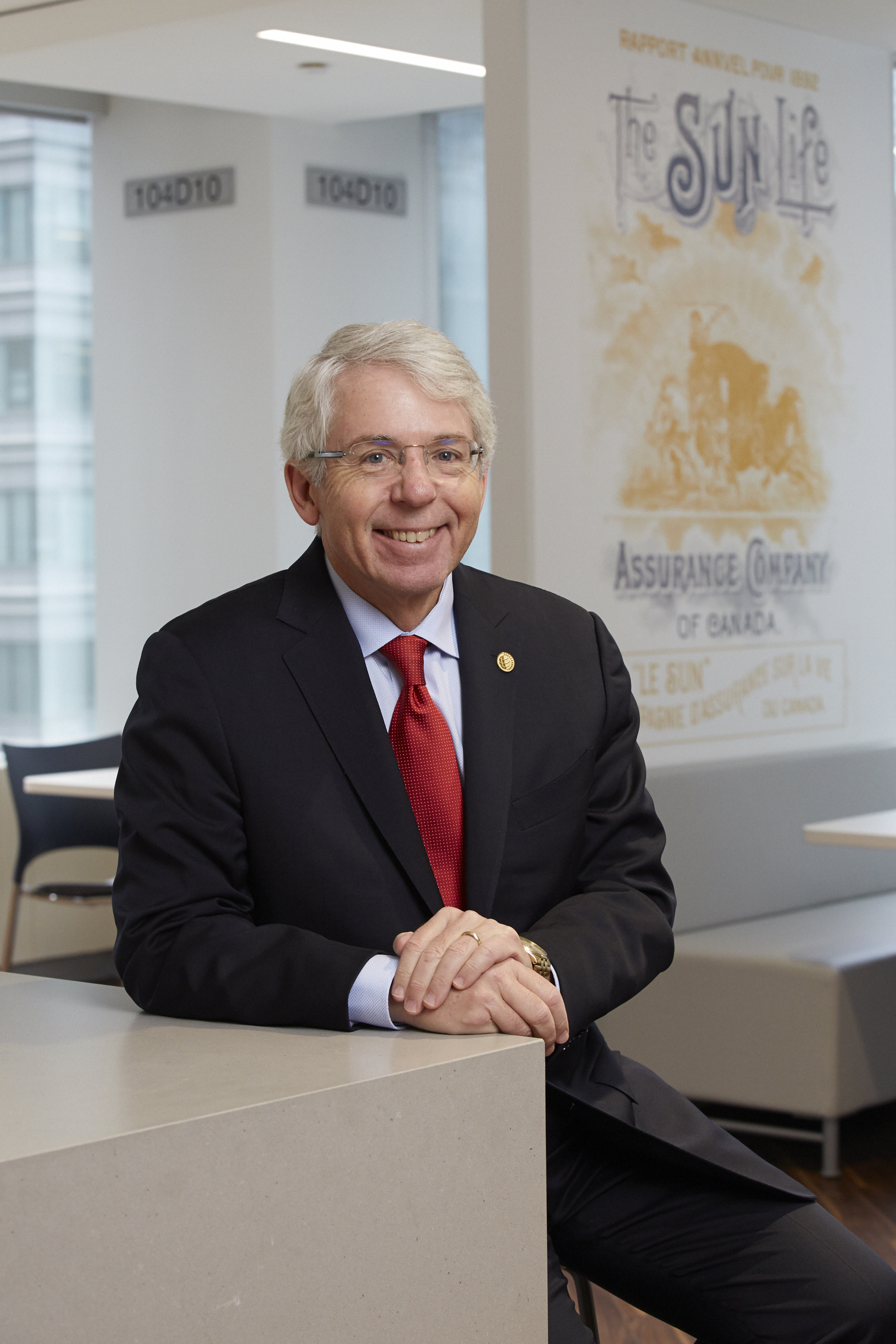 Dean A. Connor - Sun Life Financial Head Shot